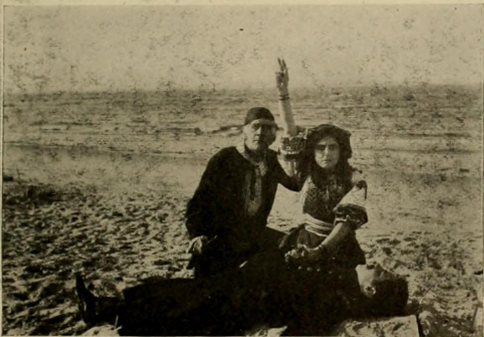 Scene from 1914 Vitagraph film, Mr. Barnes of New York, appearing in The Moving Picture World, May 2, 1914, Vol. 20, No. 5, at p. 651